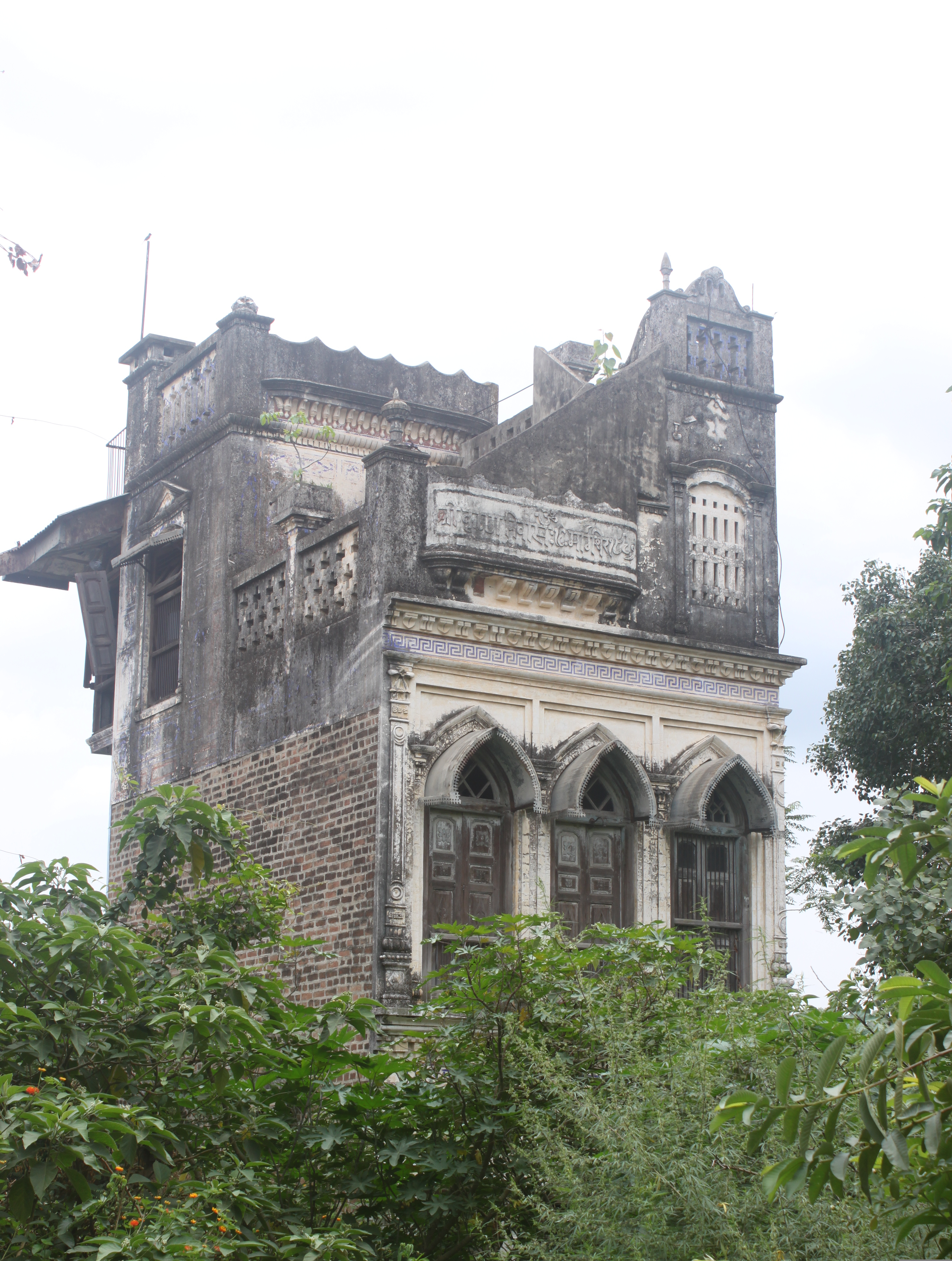 Haroli images